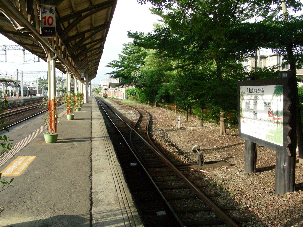 Alishan Forest Railway Chiayi Station.